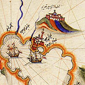 Izmir in Turkey on the Kitab-Ä± Bahriye (Book of Navigation) of Piri Reis